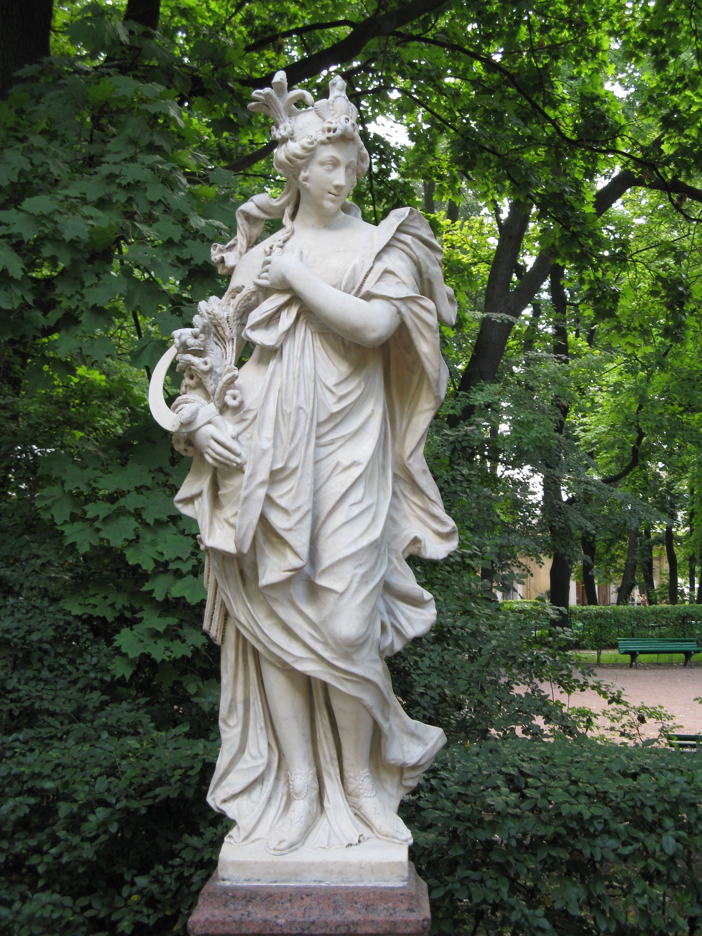 Ceres by Thomas Quellinus, 1690-ies at Summer Garden.